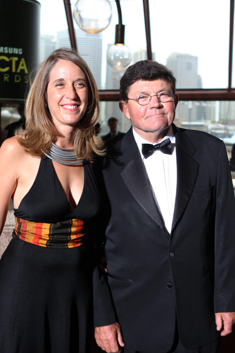 The 1st AACTA Awards were presented at the Sydney Opera House on 31 January 2012. The ceremony was preceded by a luncheon at the Westin Hotel in Sydney on 15 January 2012.